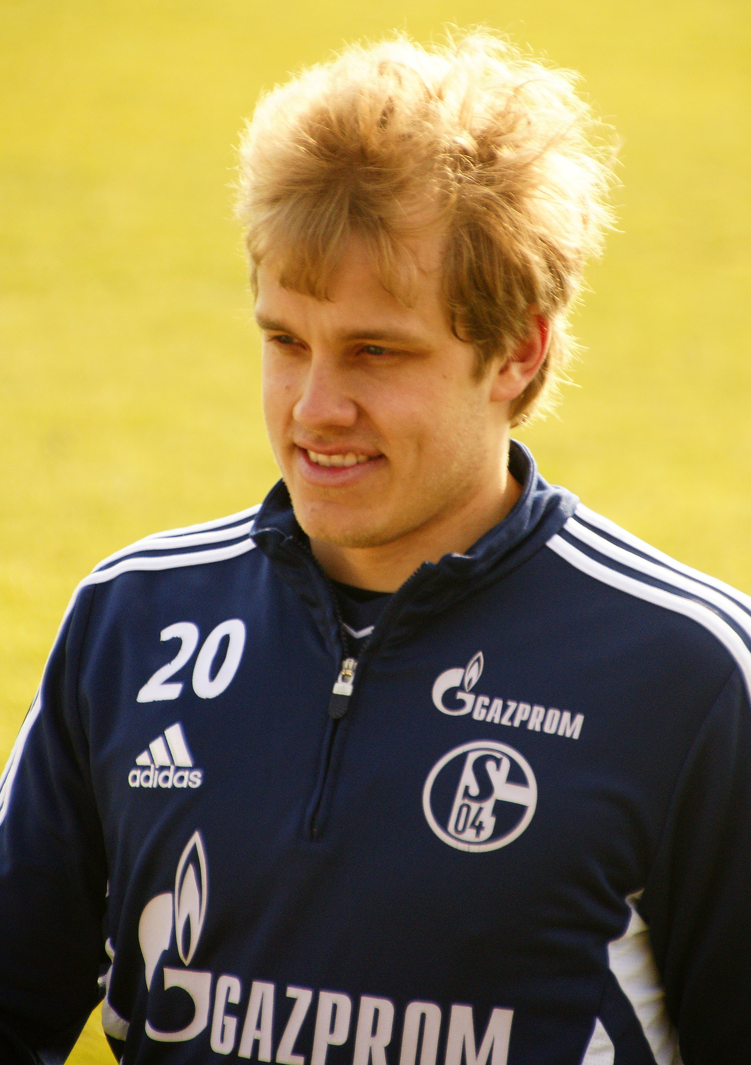 Teemu Pukki during training in August 2013.